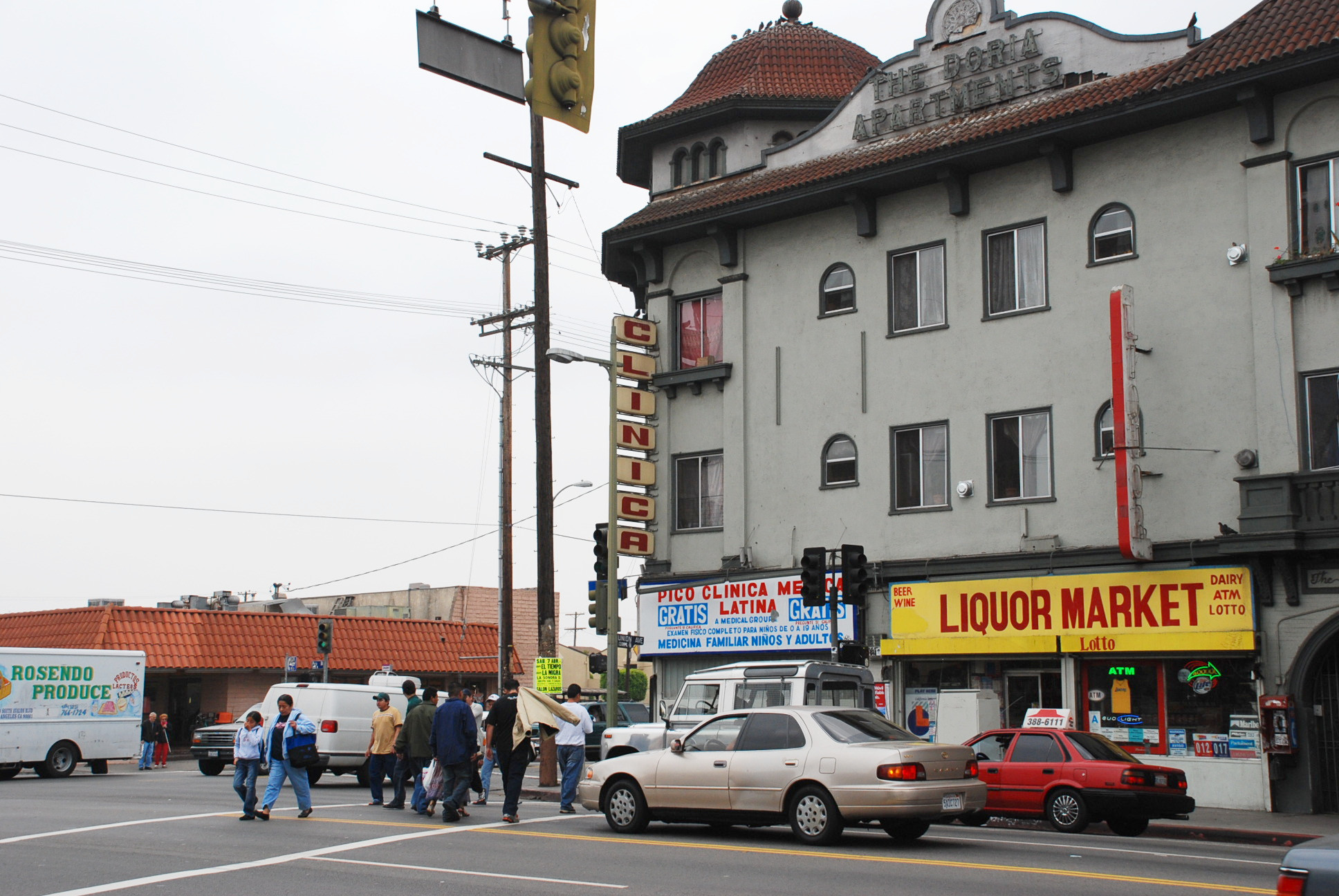 Pico Union Street Scene